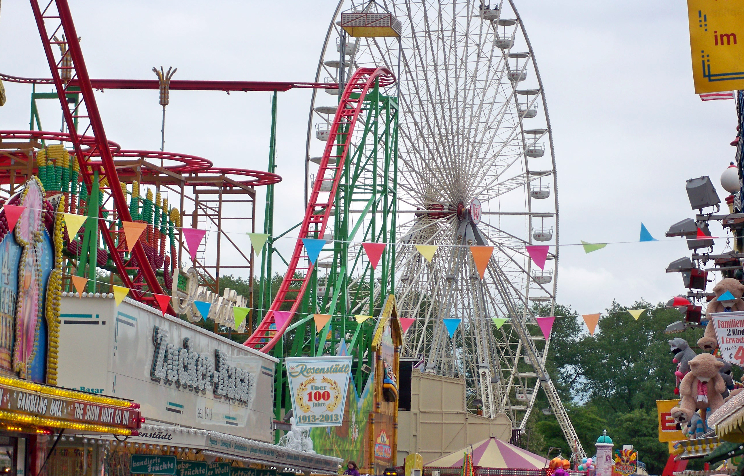 Wolfsburg, Lower Saxony, annual fair